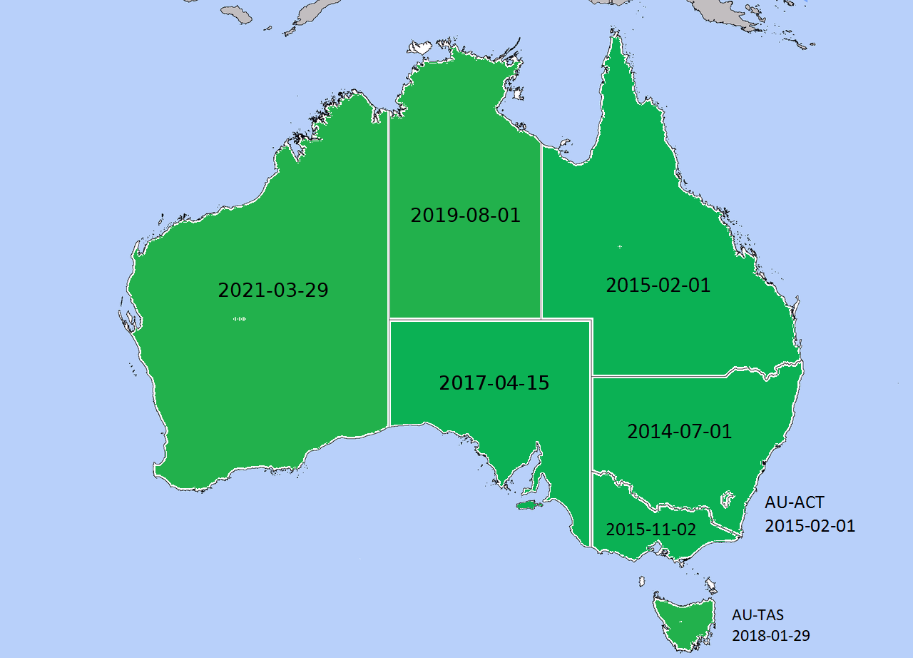 Legal lane filtering dates in back on green in Australia: New South Wales since 1 July 2014 [1] Queensland since 1 February 2015 [2] Australian Capital Territory since 1 February 2015 to try for two years [3] then extended [4] Victoria since 2 November 2015 [5] South Australia since 15 April 2017 [6] Tasmania since 29 January 2018 [7]